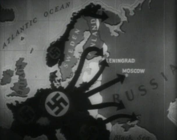 An animation depicting the six lines of attack comprising Operation Barbarossa on June 22, 1941 from the The Battle of Russia, the fifth film in the Why We Fight series.